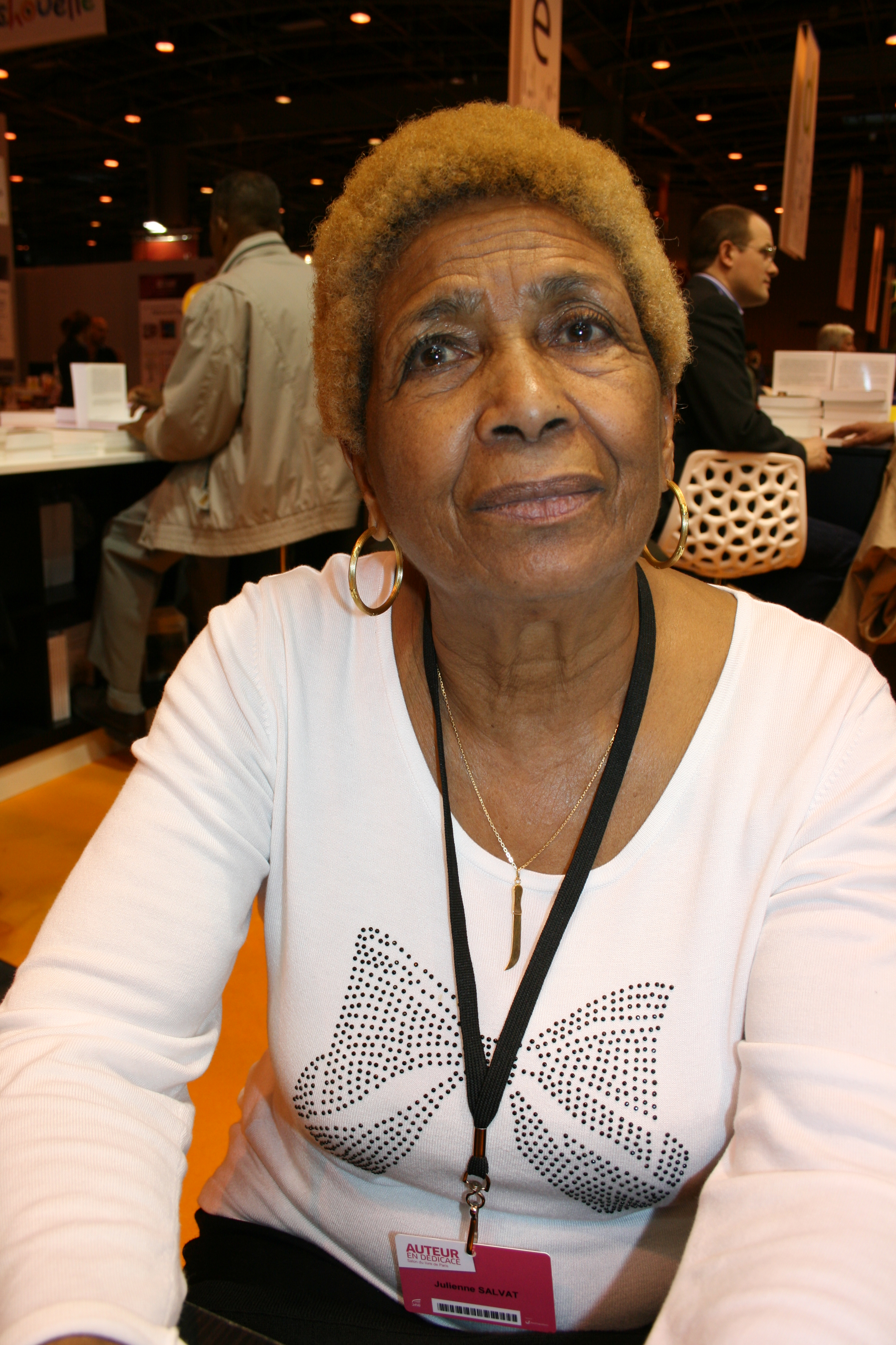 The French writer Julienne Salvat at the 2011 Paris Book Fair.